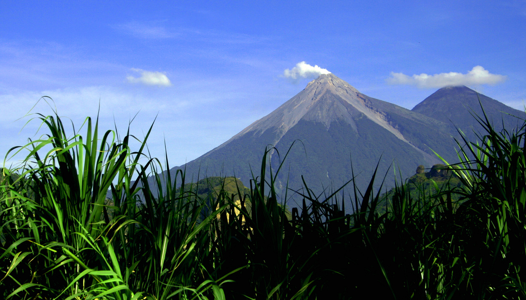 Volcan de Fuego (left) and Acatenango (right) in Guatemala. Picture taken from the highway.